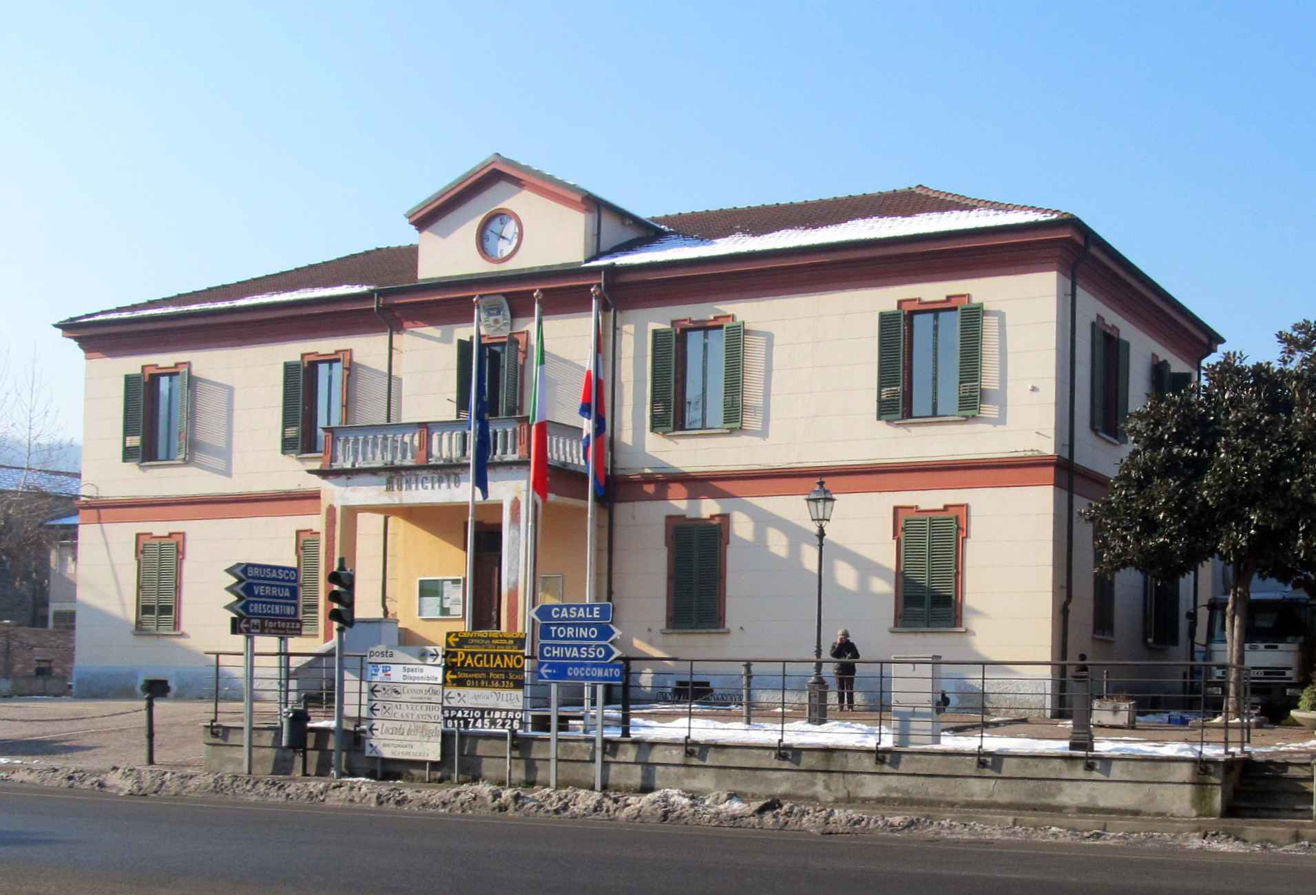 Cavagnolo (TO, Italy): town hall